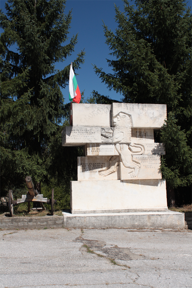 Monument to the April Uprising in Belitsa, Sofia District, Bulgaria